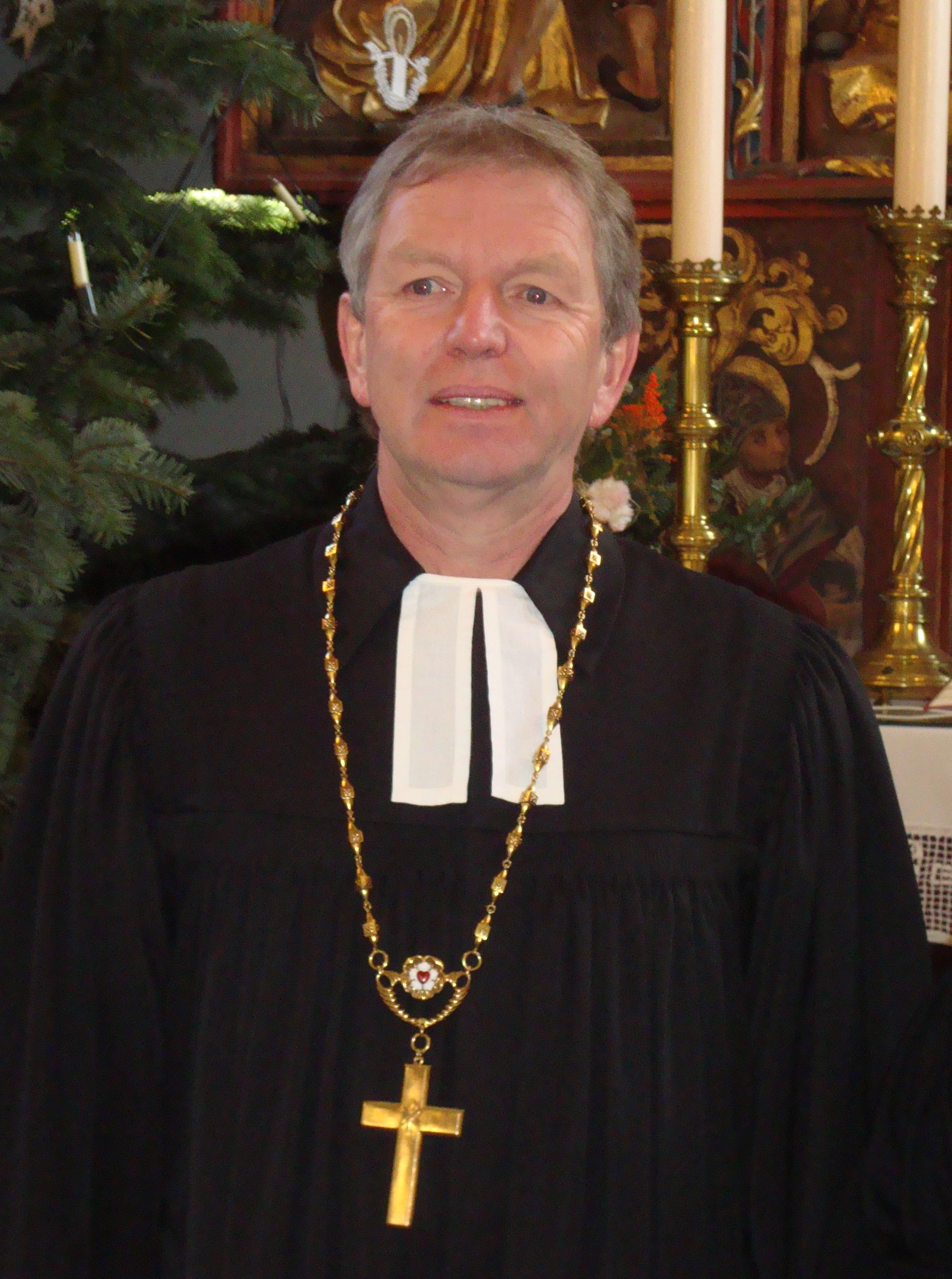 Jochen Bohl (* 1950), Lutheran Bishop of Saxony